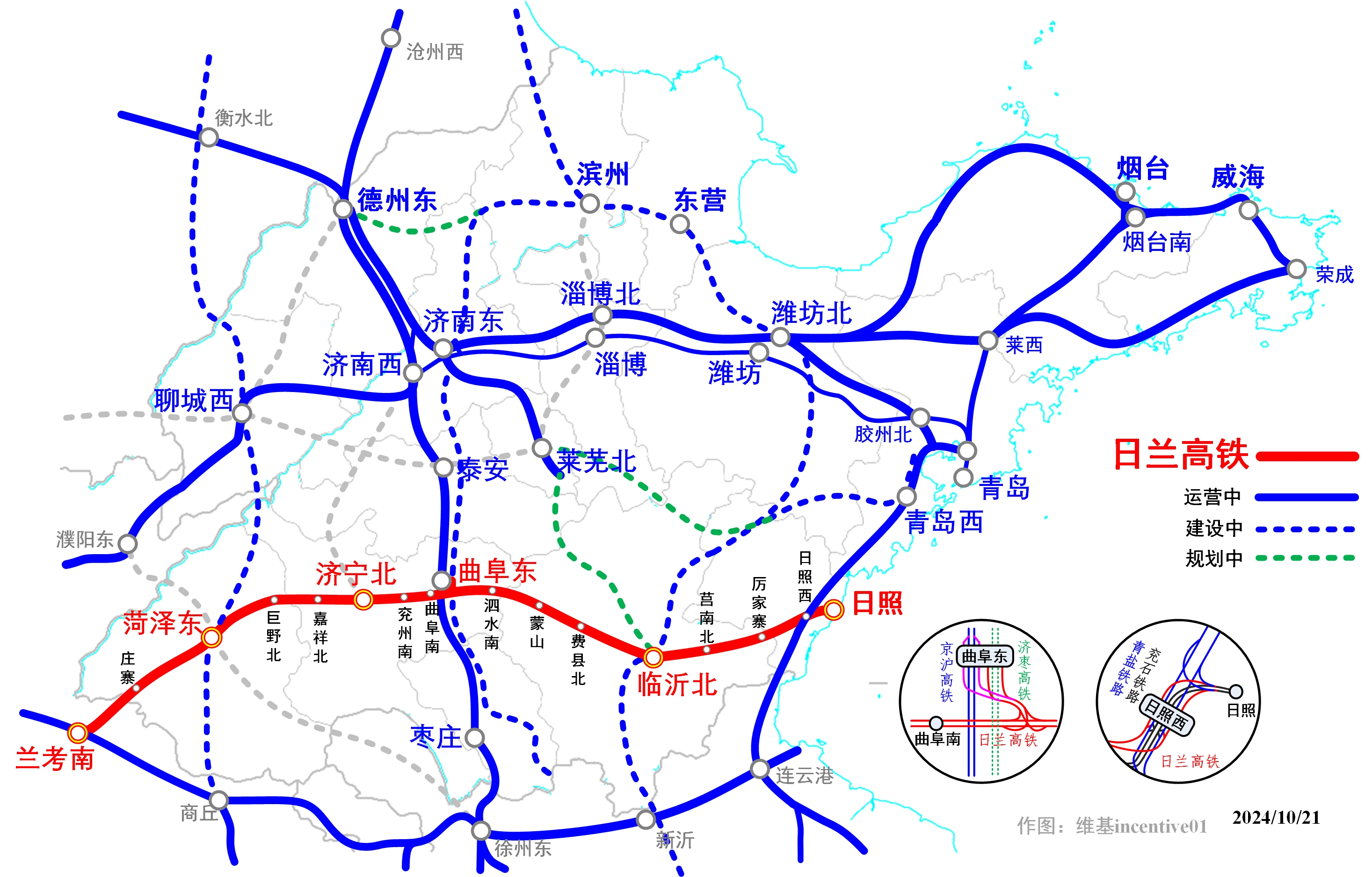 South-Shandong Province High Speed Railway Route and Stations